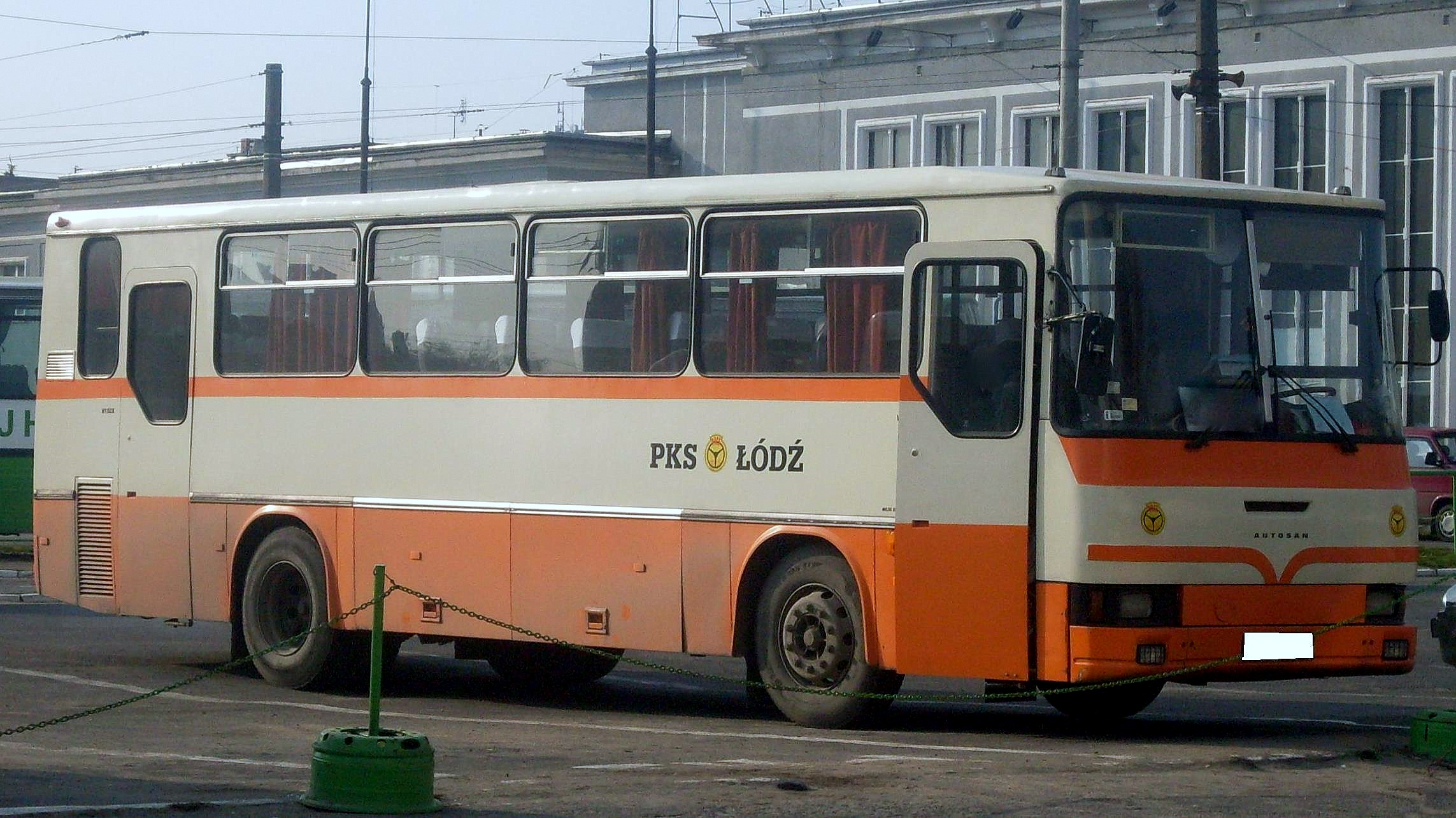 Autosan H10-10.02 bus of PKS Łódź in Gdynia Główna train station, Poland.